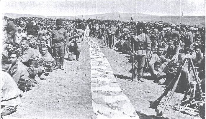 Battalion of Armenian volunteer units pictured in 1914